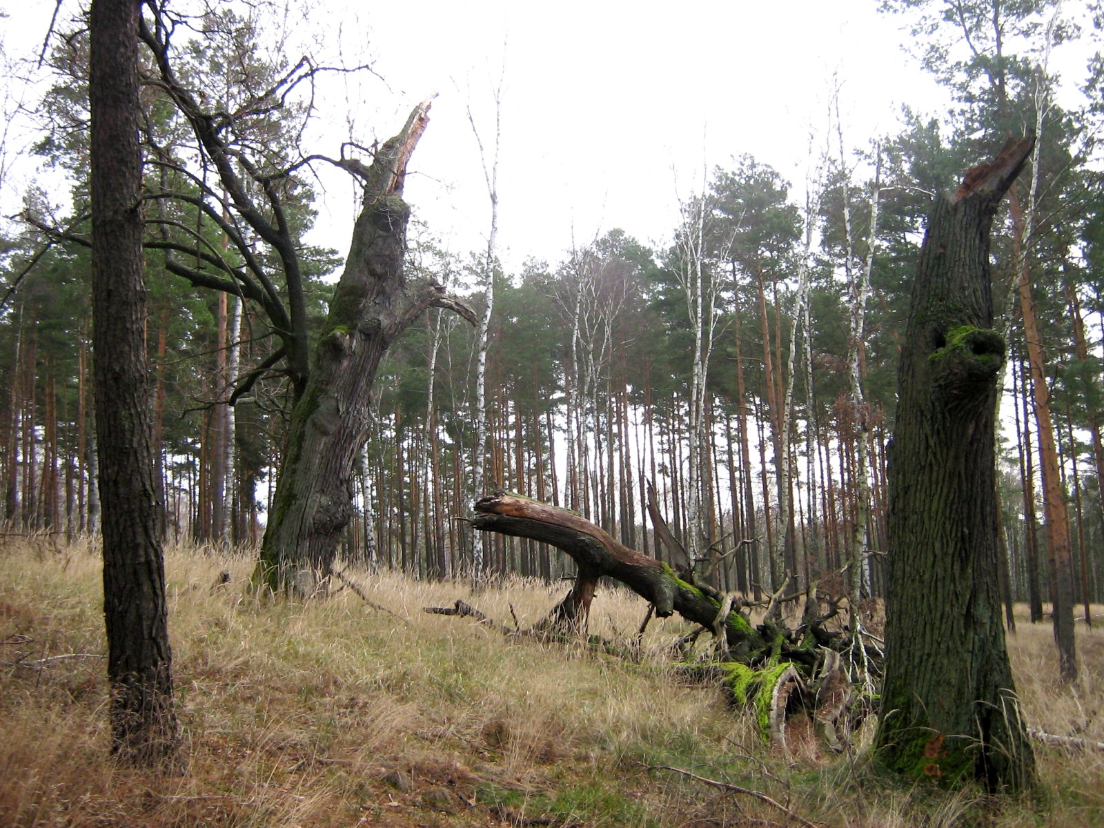 Oak deadwood habitat in the hills Krausnicker Berge, in the district of Dahme-Spreewald, Brandenburg, Germany